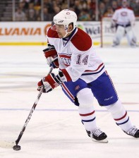 Tomas Plekanec